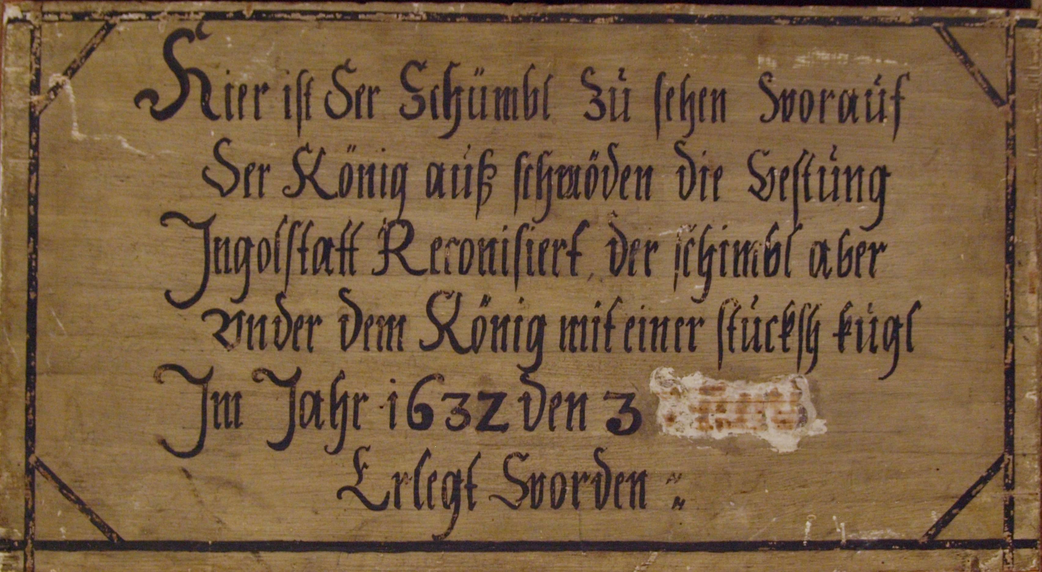 Historic information sign about the taxidermied Schwedenschimmel (Swedish Grey Horse) of Gustavus Adolphus of Sweden, Ingolstadt City Museum, Germany; probably 18th/19th century.